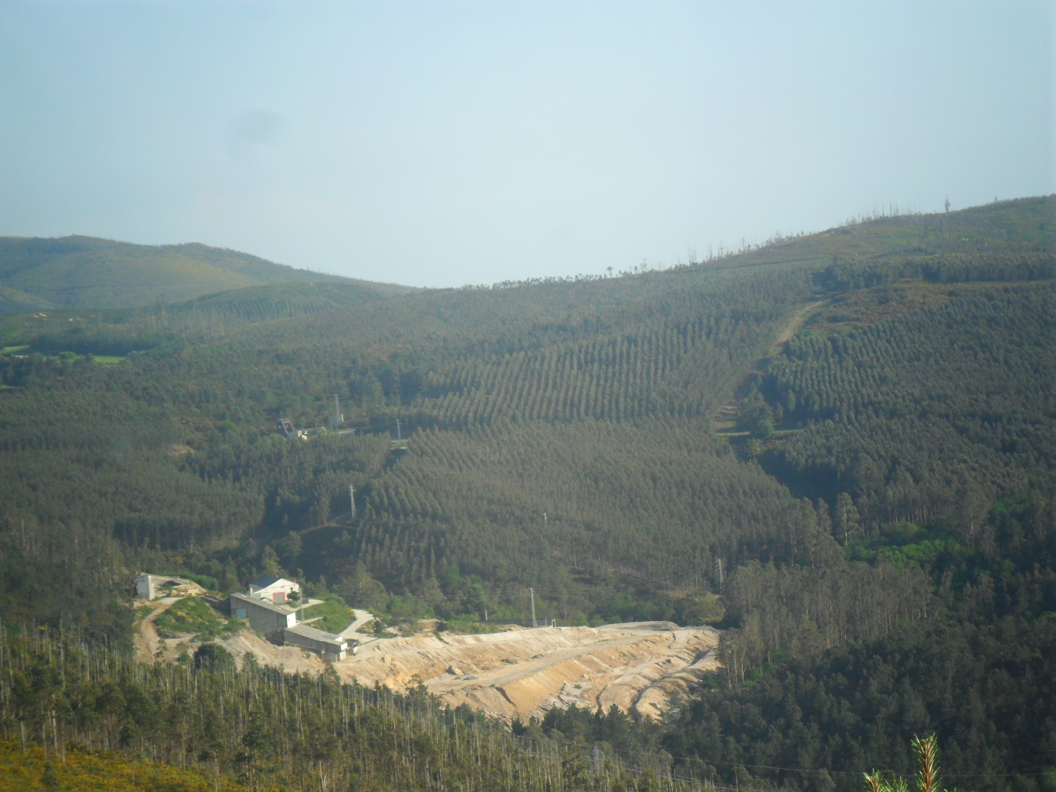 Minas de san finx